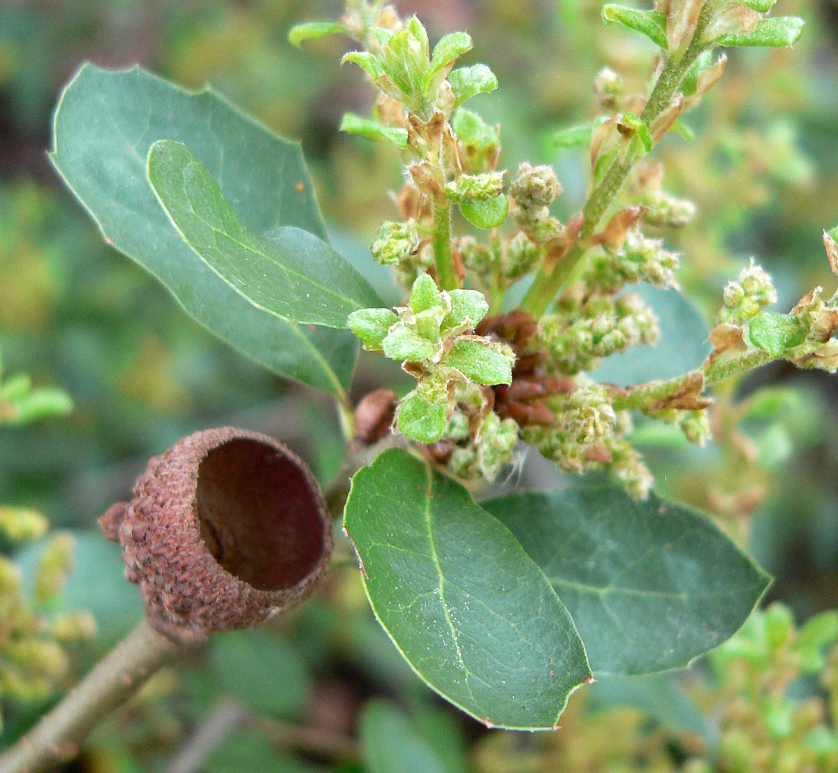 Photo of Quercus pacifica at the Regional Parks Botanic Garden, Berkeley, California